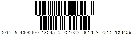 GS1 databar expanded stacked